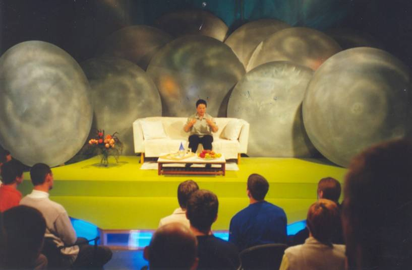 Master Aiping Wang - Takaro lodge July 2001